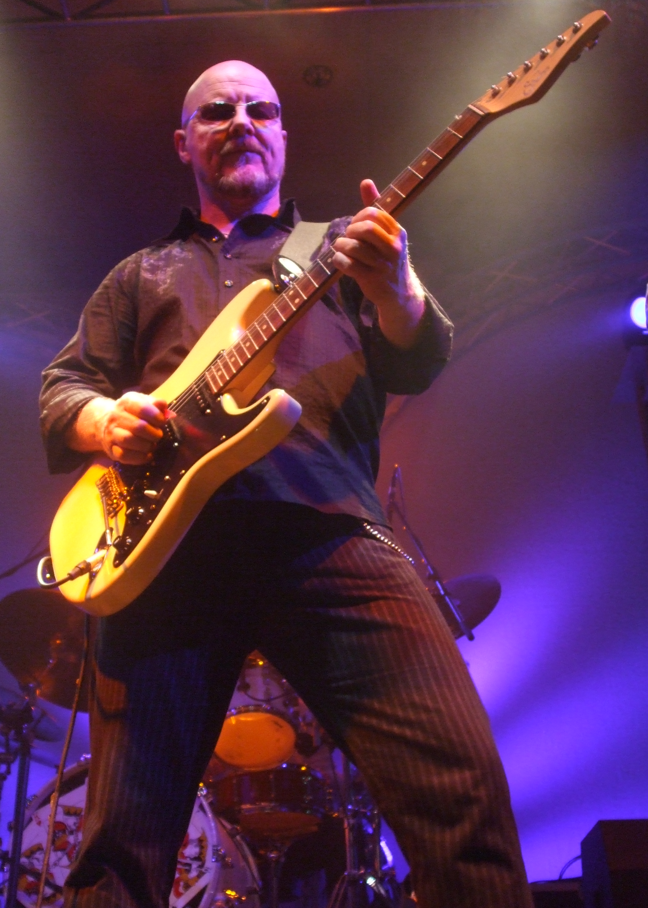 Andy Powell on Tour with Wishbone Ash, 2009-30-01 Capitol Paderborn Germany